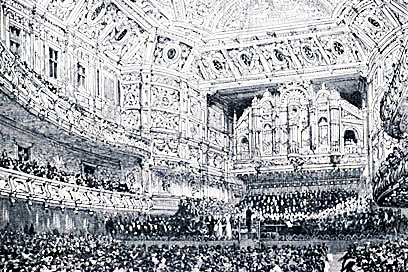 Drawing of Queen's Hall, 1893.